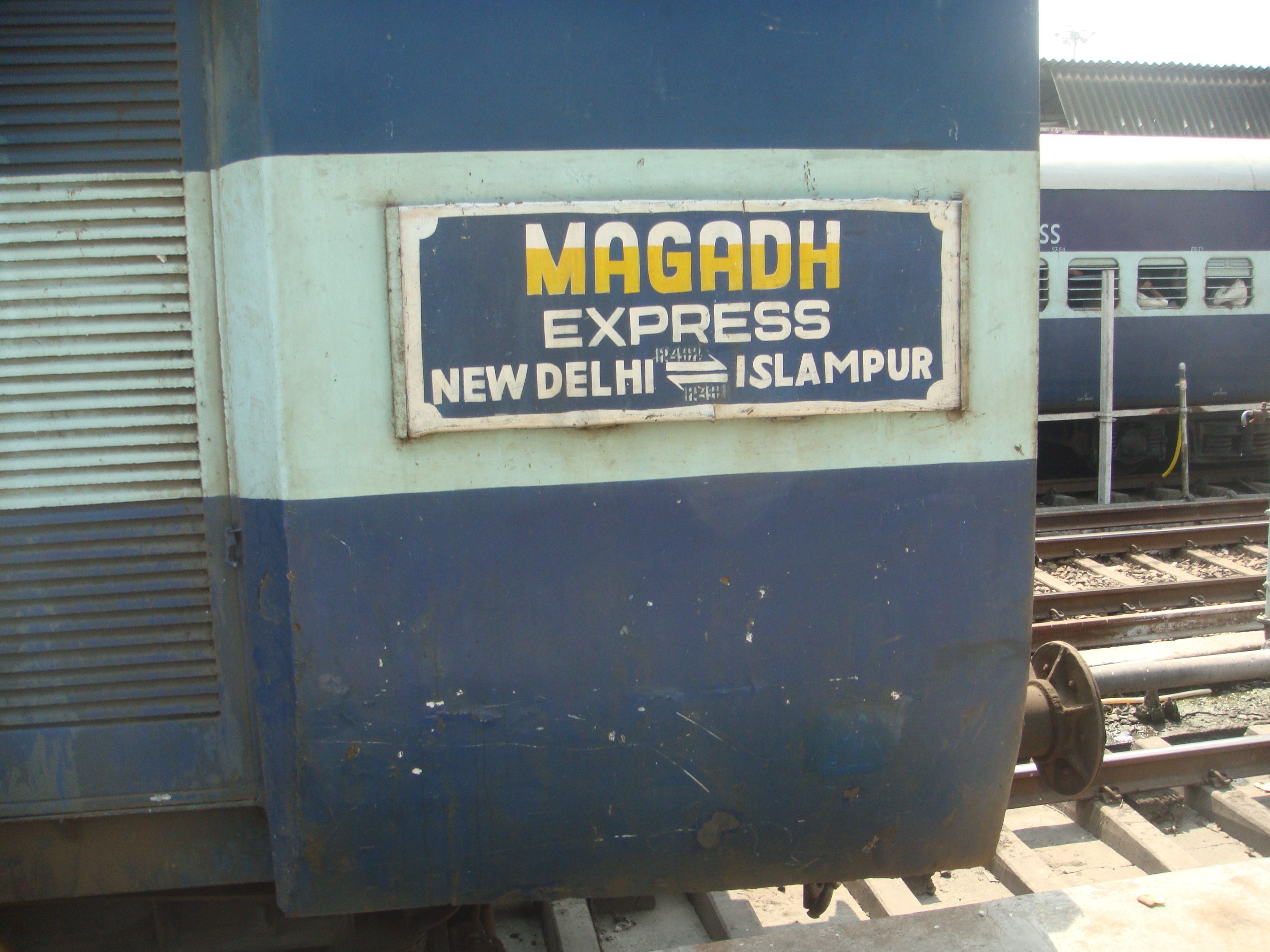 Magadh Express - 1